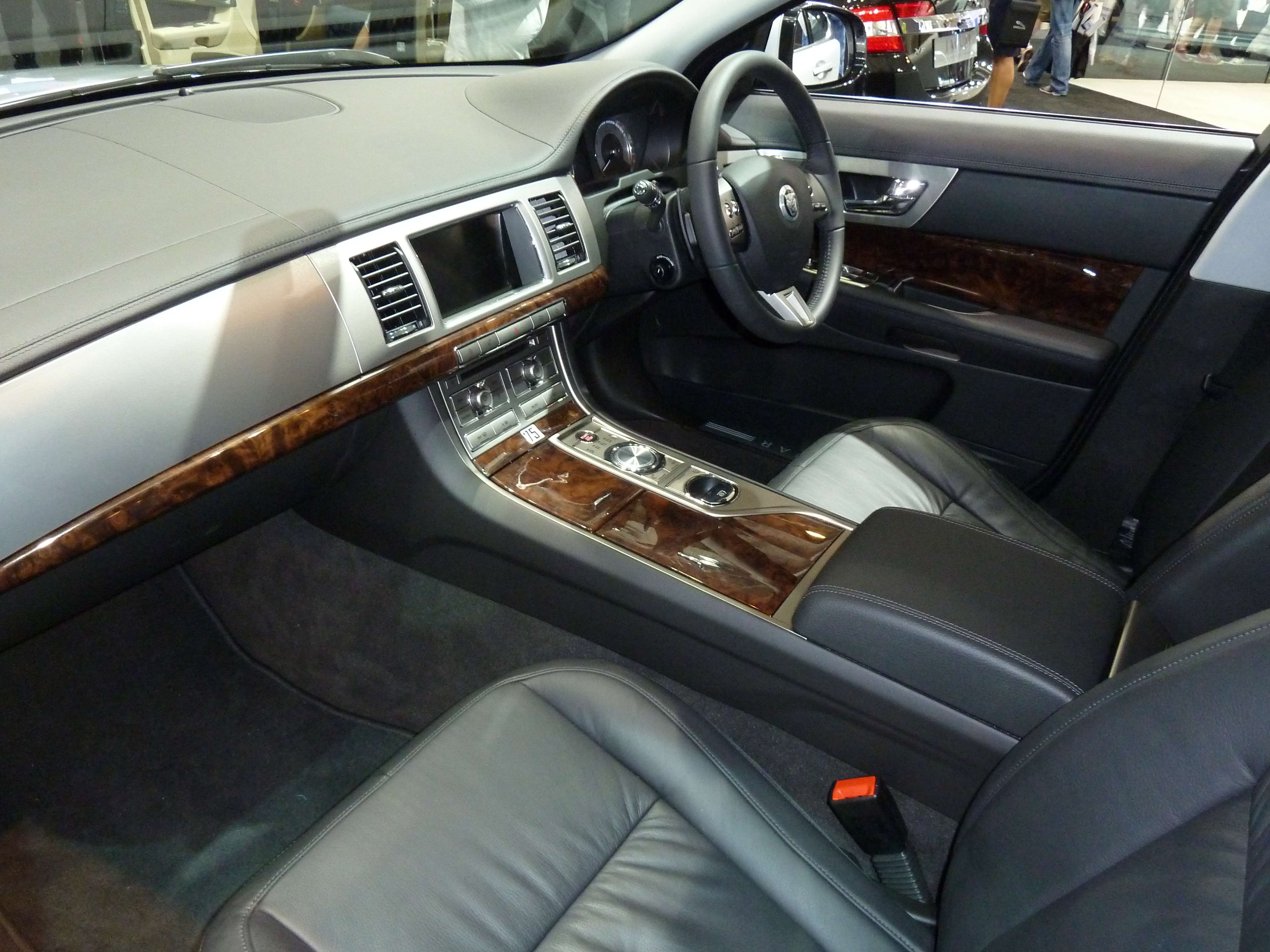 2010 Jaguar XF (X250) sedan. Photographed at the 2010 Australian International Motor Show, Sydney, New South Wales, Australia.